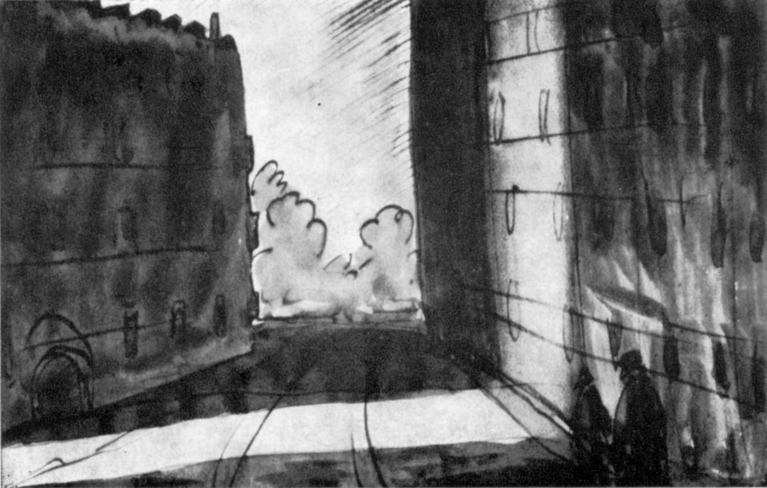 D. I. Mitrohin. In the old St. Petersburg. 1910. Water colour